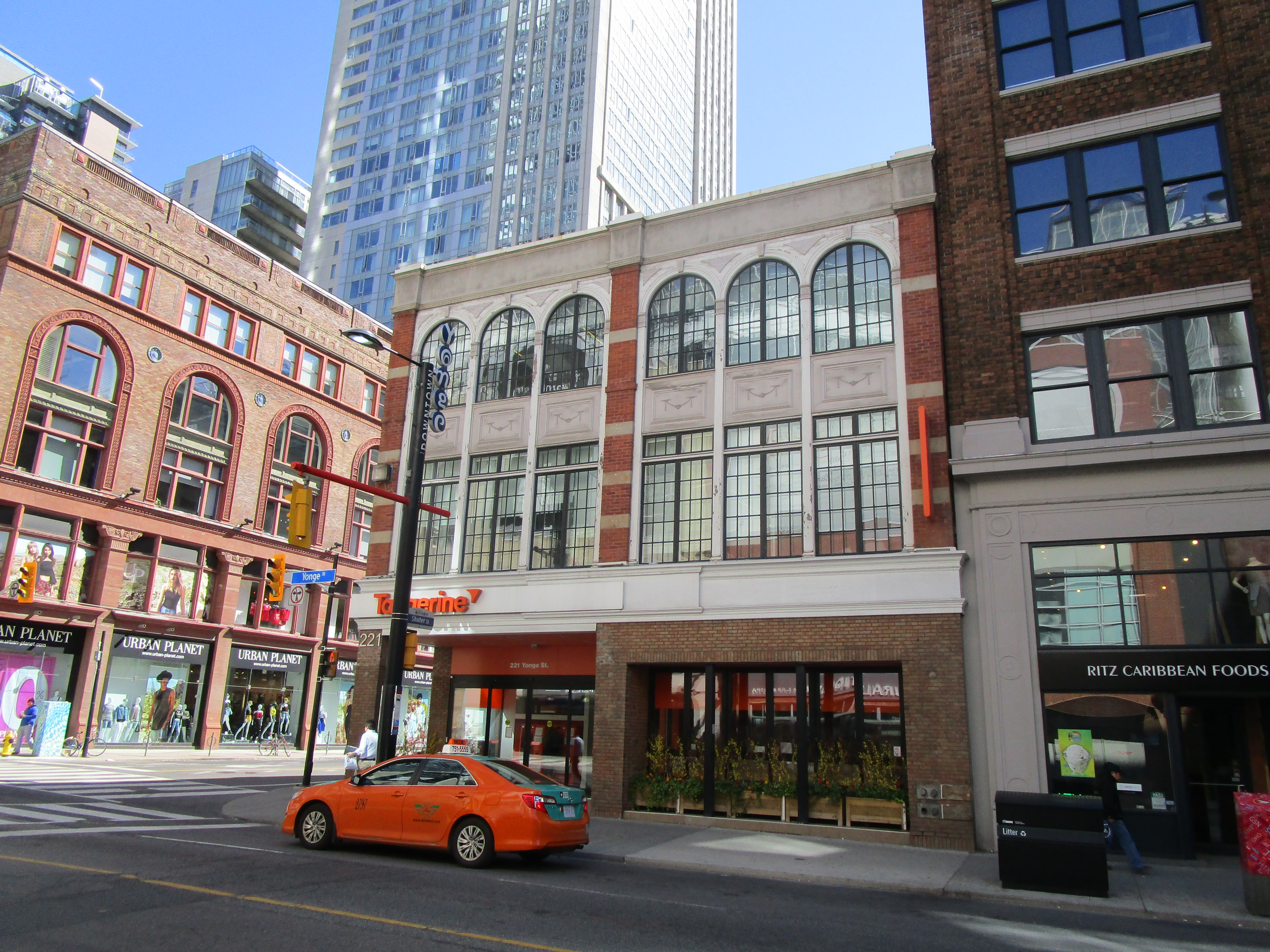 Intersection of Yonge and Shuter, 2017 05 20 -d